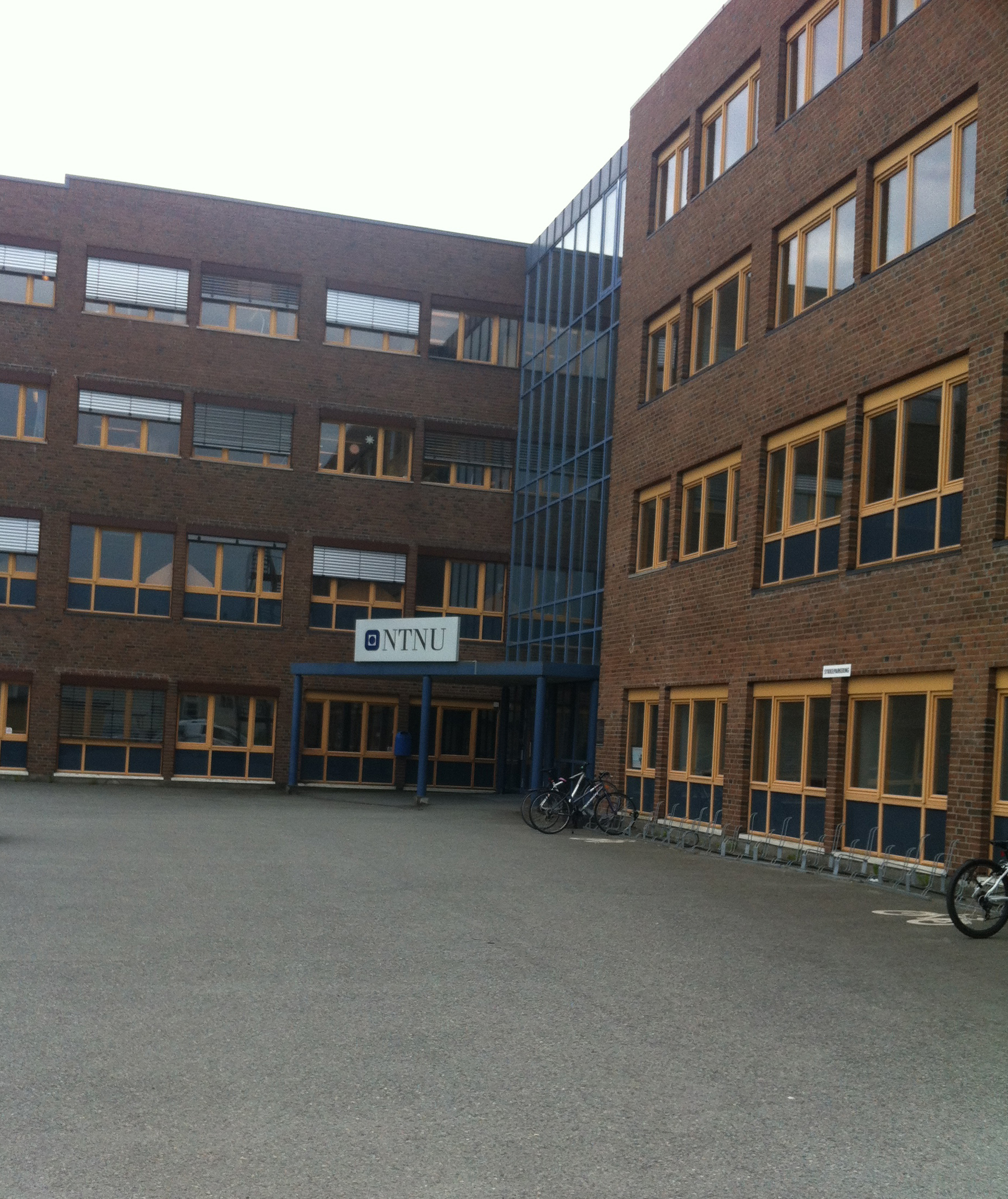 The entrance of the NTNU University Library, branch library at Moholt, Trondheim